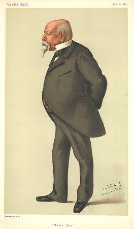 Caricature of Samuel Cutler Ward (1814-1884). Caption read "Uncle Sam".